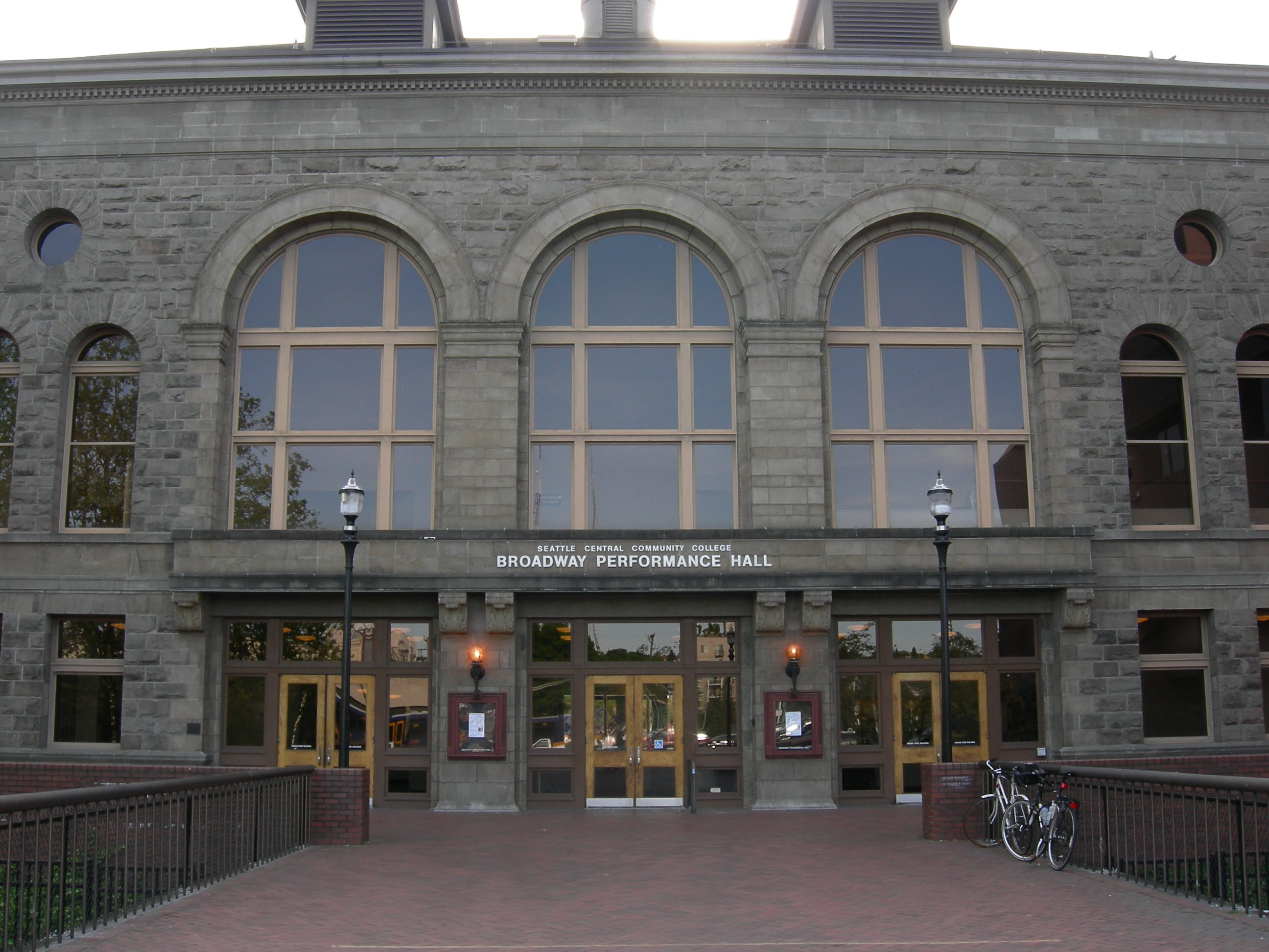 Broadway Performance Hall, Seattle Central Community College (now Seattle Central College), Capitol Hill, Seattle, Washington. The hall was part of Broadway High School / Edison Technical School, listed on the National Register of Historic Places, ID #74002297.